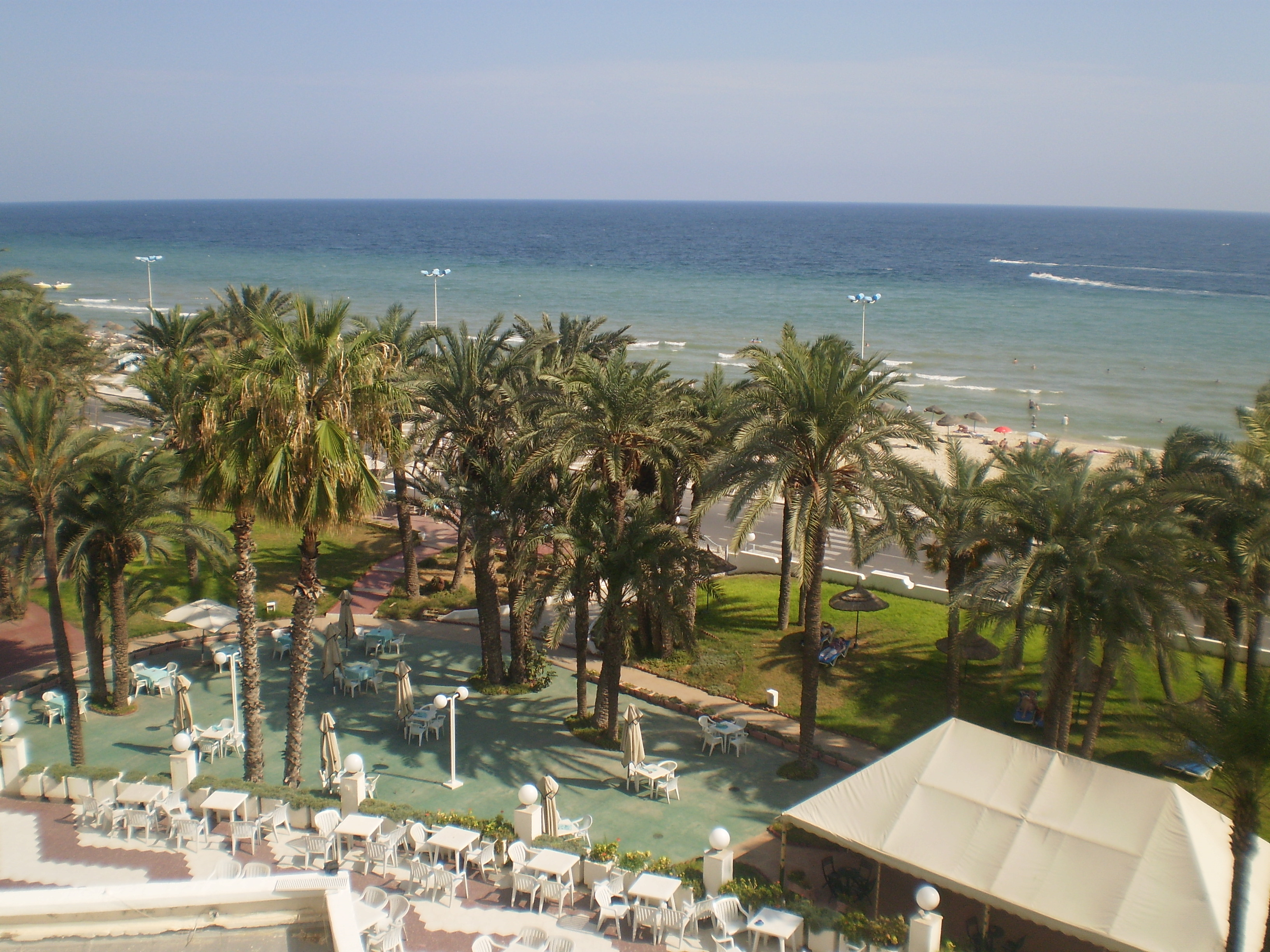 Look from the hotel in Sousse